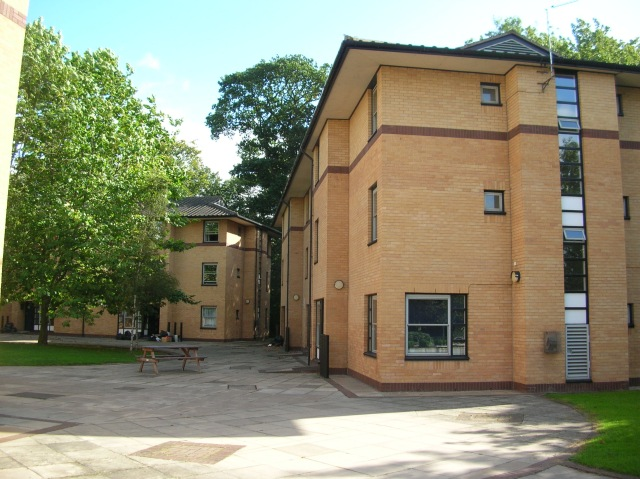 Derwent and Langwith E & F blocks These 4 blocks of accommodation; E & F blocks for Derwent and Langwith; are usually collectivly referred to as 'Derwith'. This accommodation is much more modern than the other blocks in the two colleges, the rest dating from the opening of the University of York in 1962. These blocks sit opposite Derwent (right) and Chemistry (behind). Beyond the blocks is Heslington Church.